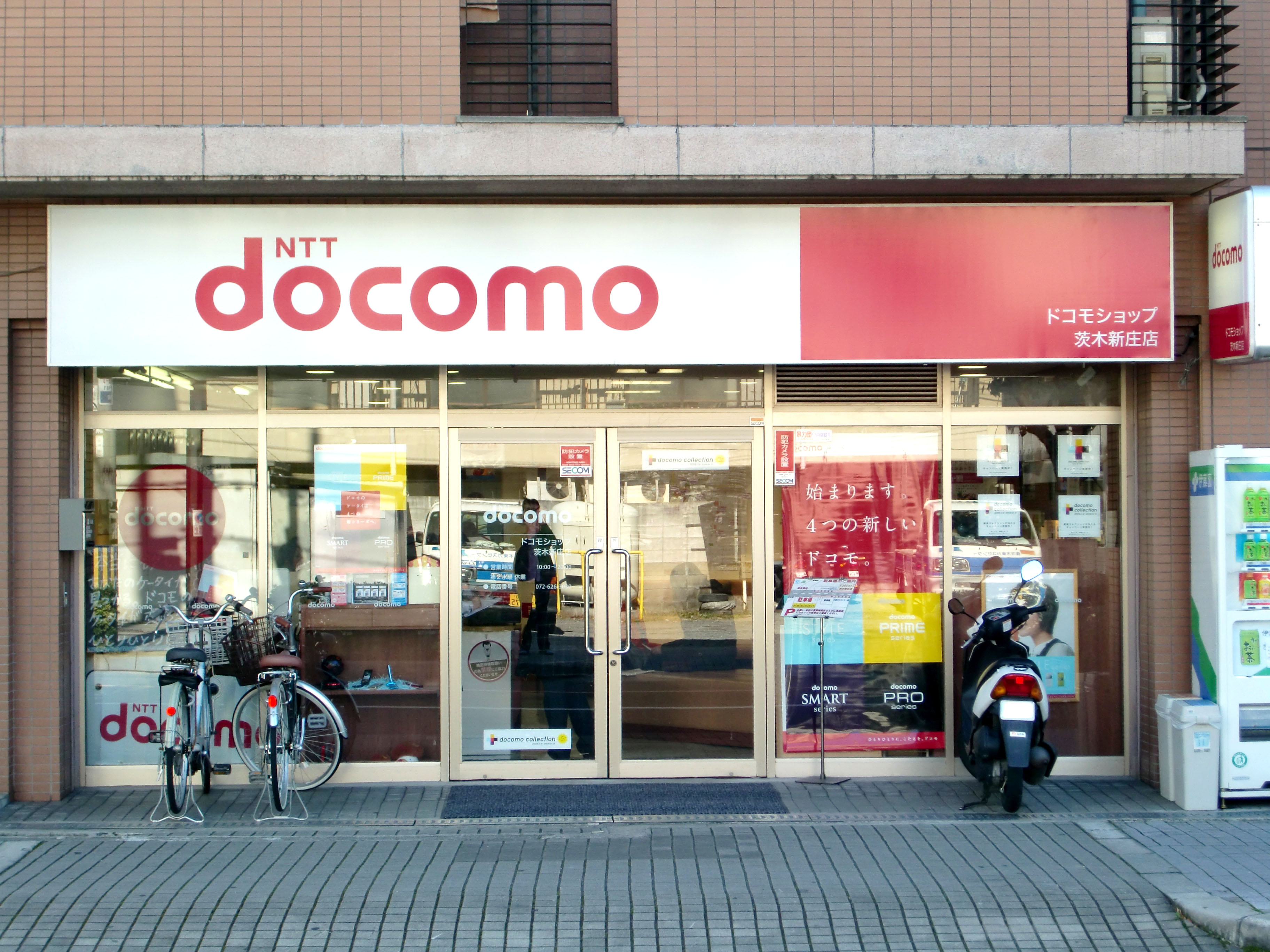 DoCoMo Shop Ibaraki-Shinjo,Shinjocho Ibaraki-City Osaka Japan.